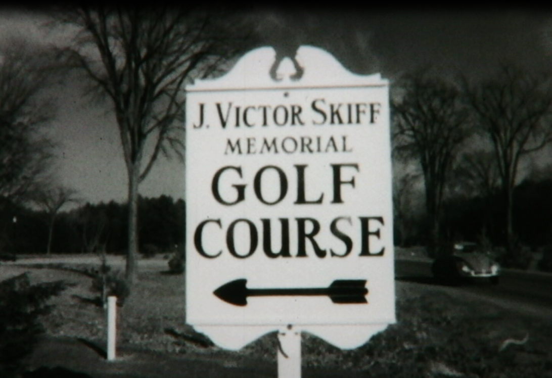 Screen capture of J Victor Skiff Memorial Golf Course sign